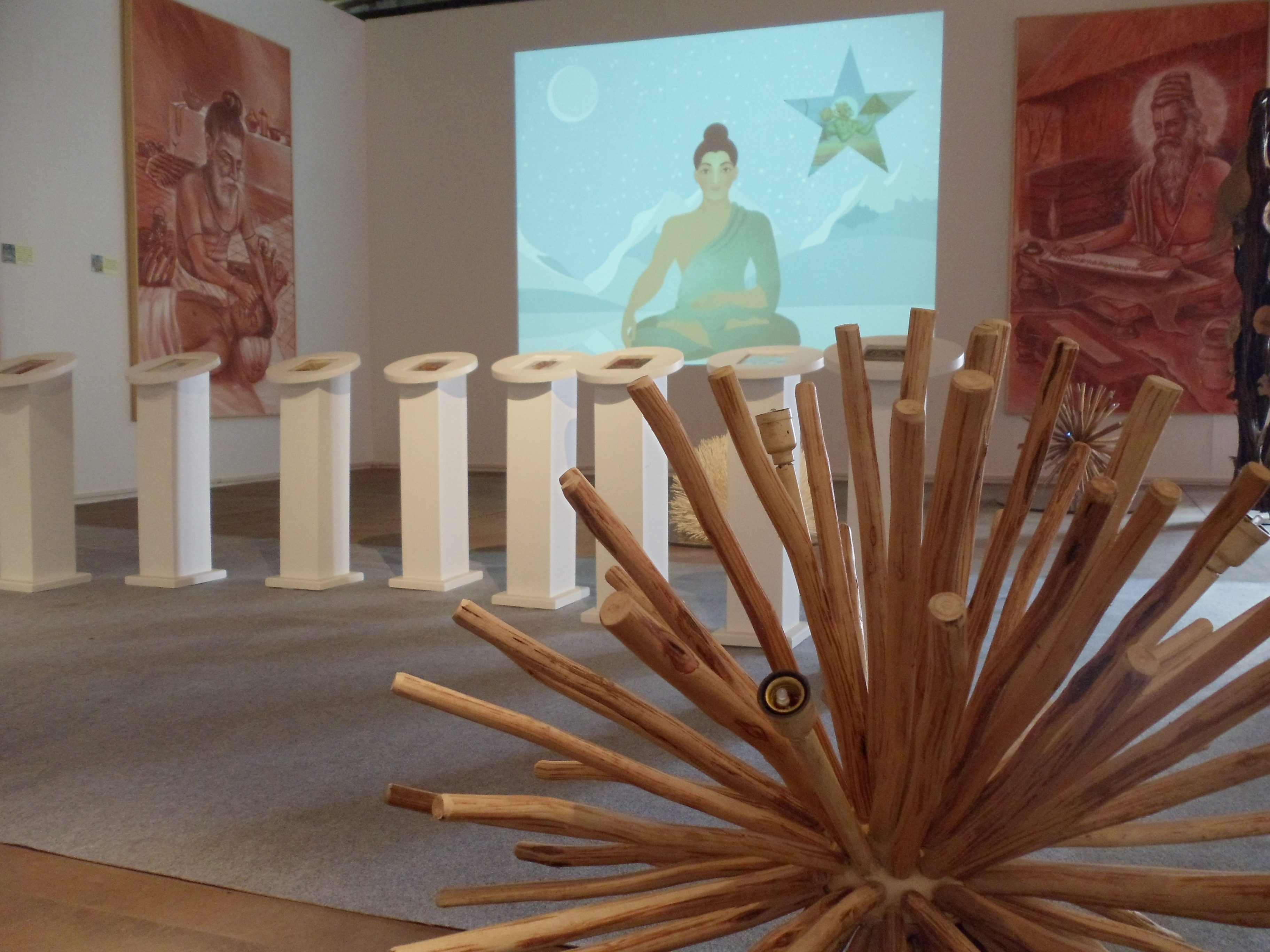 Shot of Ayurveda section OF Planet Health Museum, designed by Ranjit Makkuni